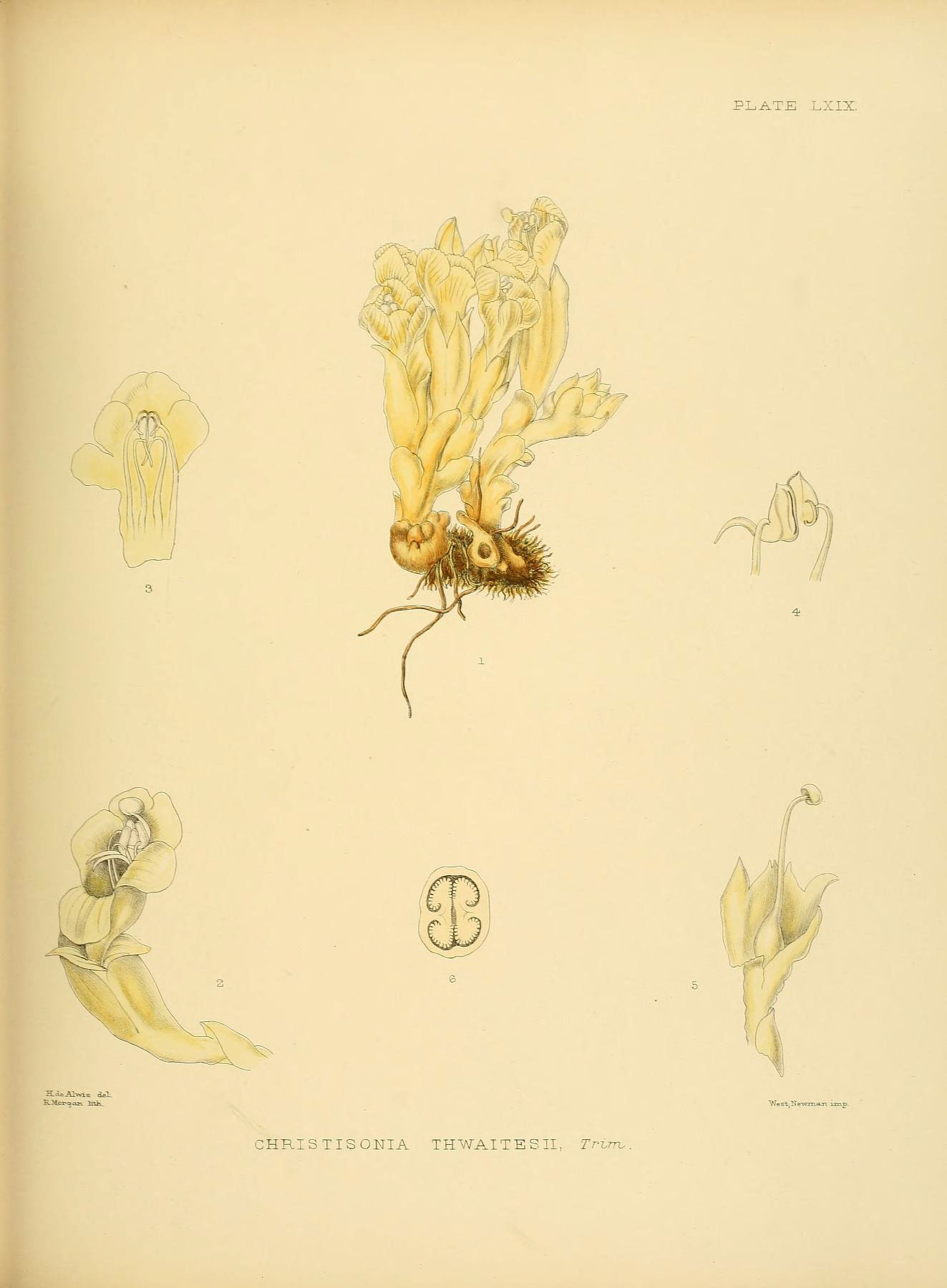 PLATE LXIX. \; \ / . 3 ~~ 3 b Alwis o^7 "West.NeTwrcaii imp. CHRIST IS ONI A THWAITESII, Trim,.